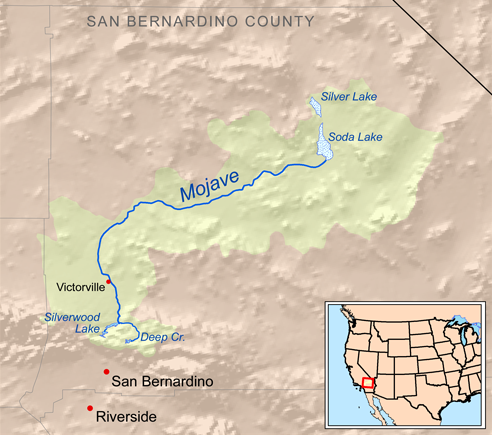 Map showing the Mojave River drainage basin — in the Category:Mojave Desert, San Bernardino County, Southern California. It is a tributary of endorheic basin, with headwaters in the San Bernardino Mountains. The upstream reaches of the Mojave River drain parts of the western half of the Mojave National Preserve, into Soda Dry Lake in exceedingly wet years. Silver Dry Lake is north of Interstate 15.